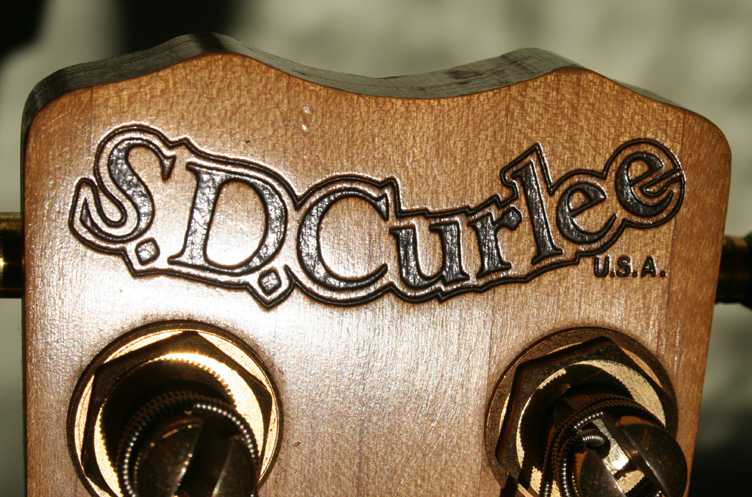 The branding iron style logo from an S.D. Curlee bass guitar